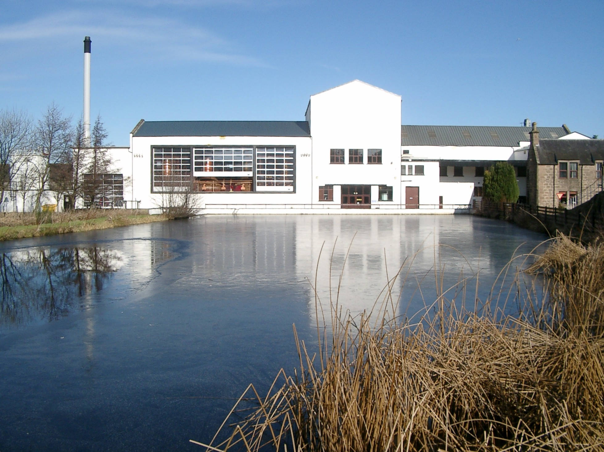 Royal Brackla Distillery Owned by John Dewar & Co, this distillery near Nairn is now running again after having been closed for some years Keywords: distillery whisky Brackla Nairn Scotland